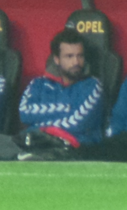 Mehmet Uslu (futbolcu)